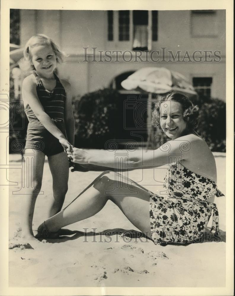 1936 Press Photo Diana Wright with her mother Martha Norelius Olympic Champion